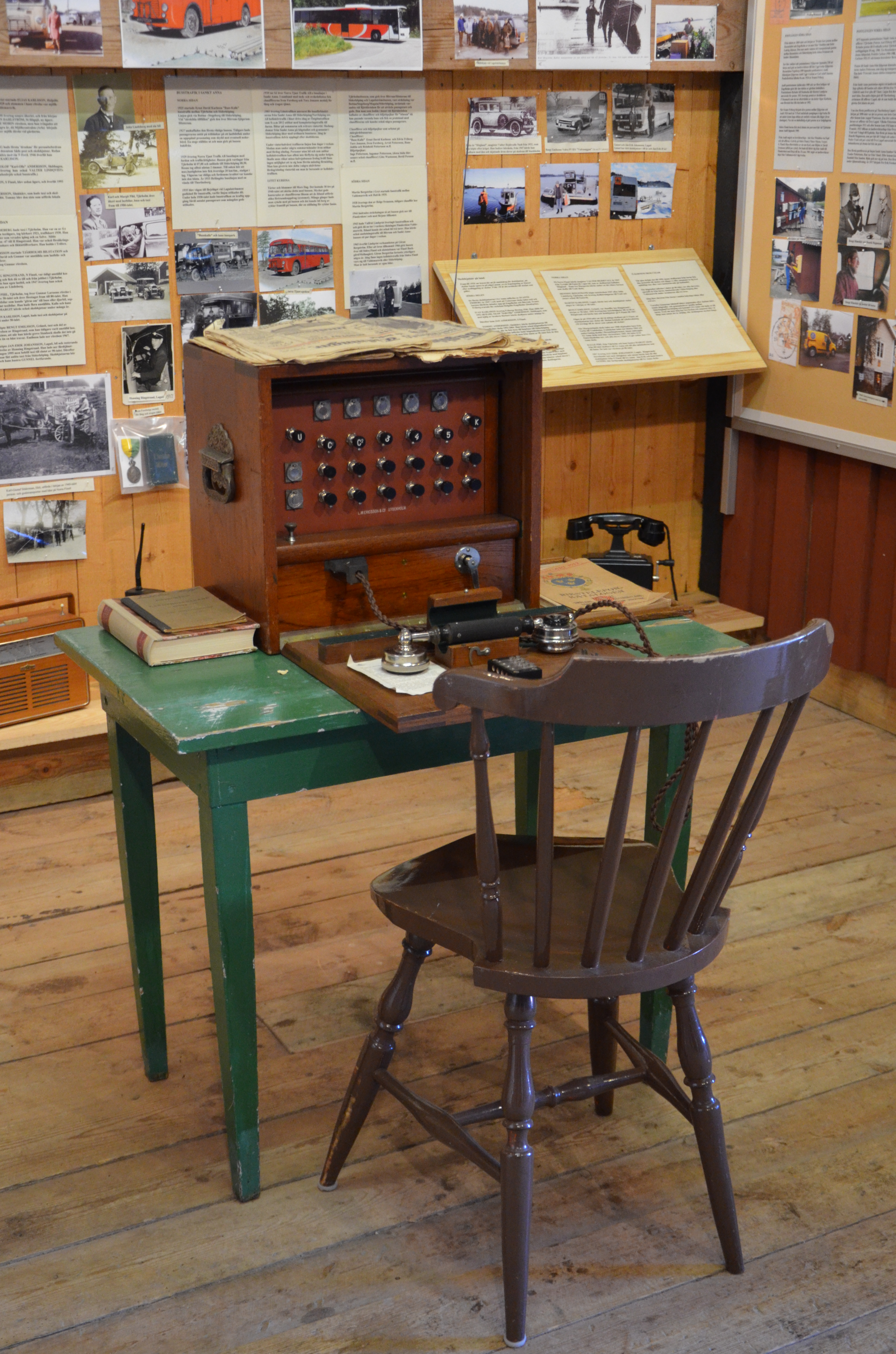 Local telephone exchange, Sanden, Norra FInnö, Söderköping municipality, Sweden, at Sankt Anna Skärgårdsmuseum, Tyrislöt